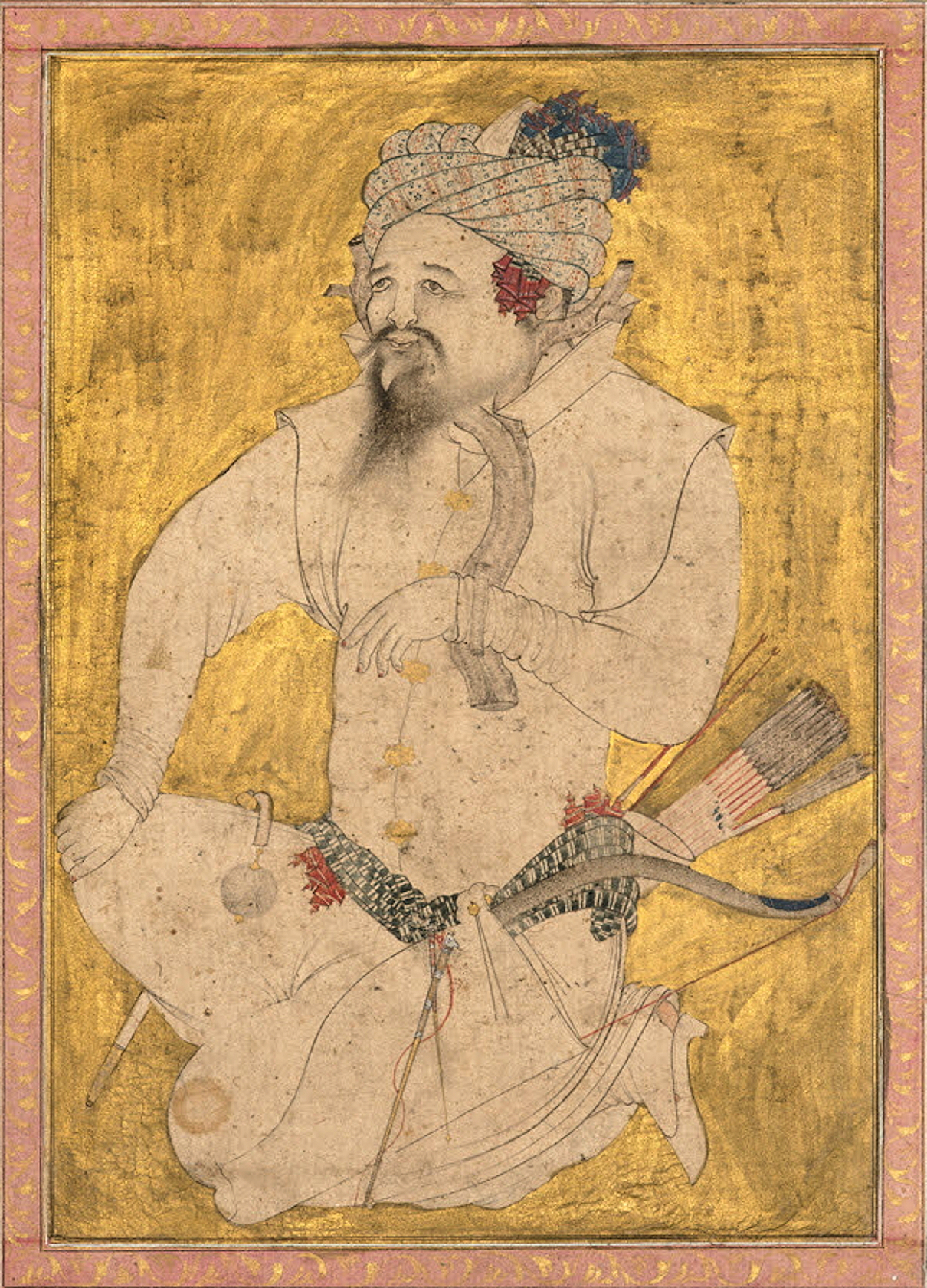 Turkmen prisoner. Ink with gold and color highlights on paper, golden background added later. Iran, second half of the 16th century.